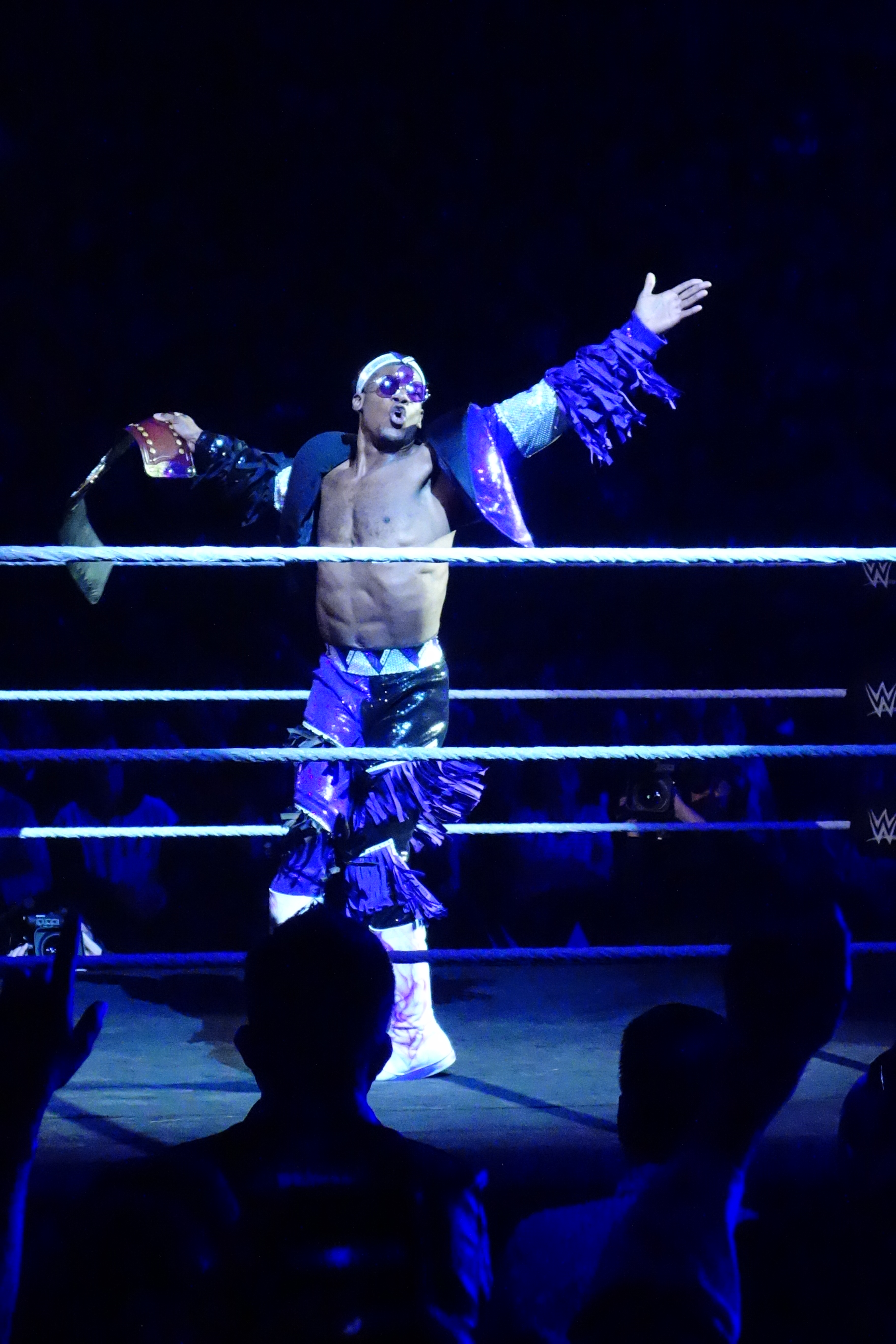 Velveteen Dream